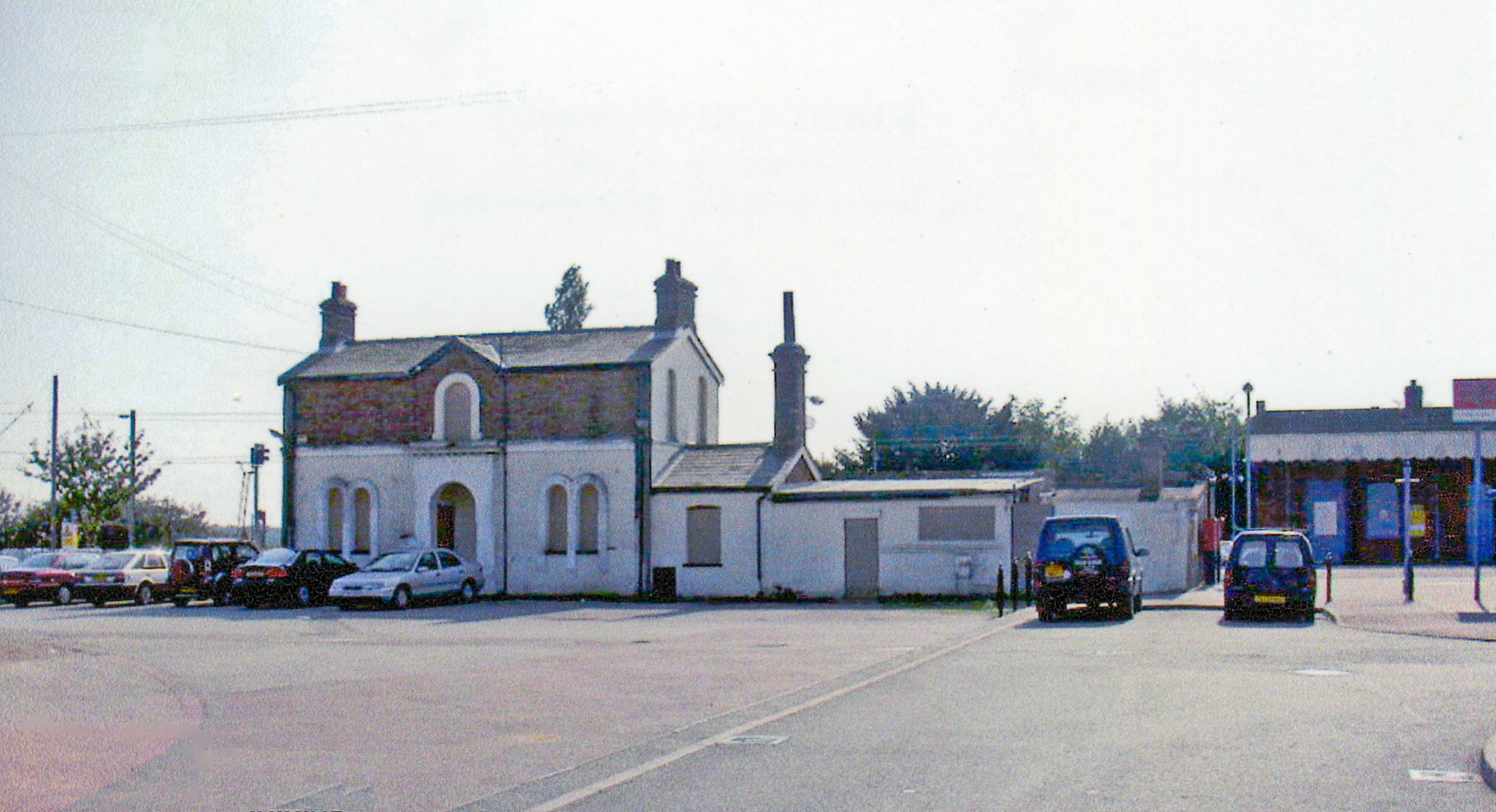 Kirby Cross station. View southward to down side exterior of the station: ex-GER (Colchester) - Thorp-le-Soken - Walton-on-Naze line, electrified March 1959.